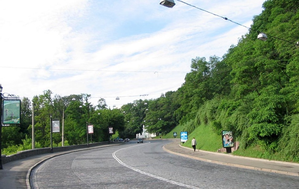 A view of the Volodymyrskyi Descent of the Volodymyrskyi Park in Kiev.